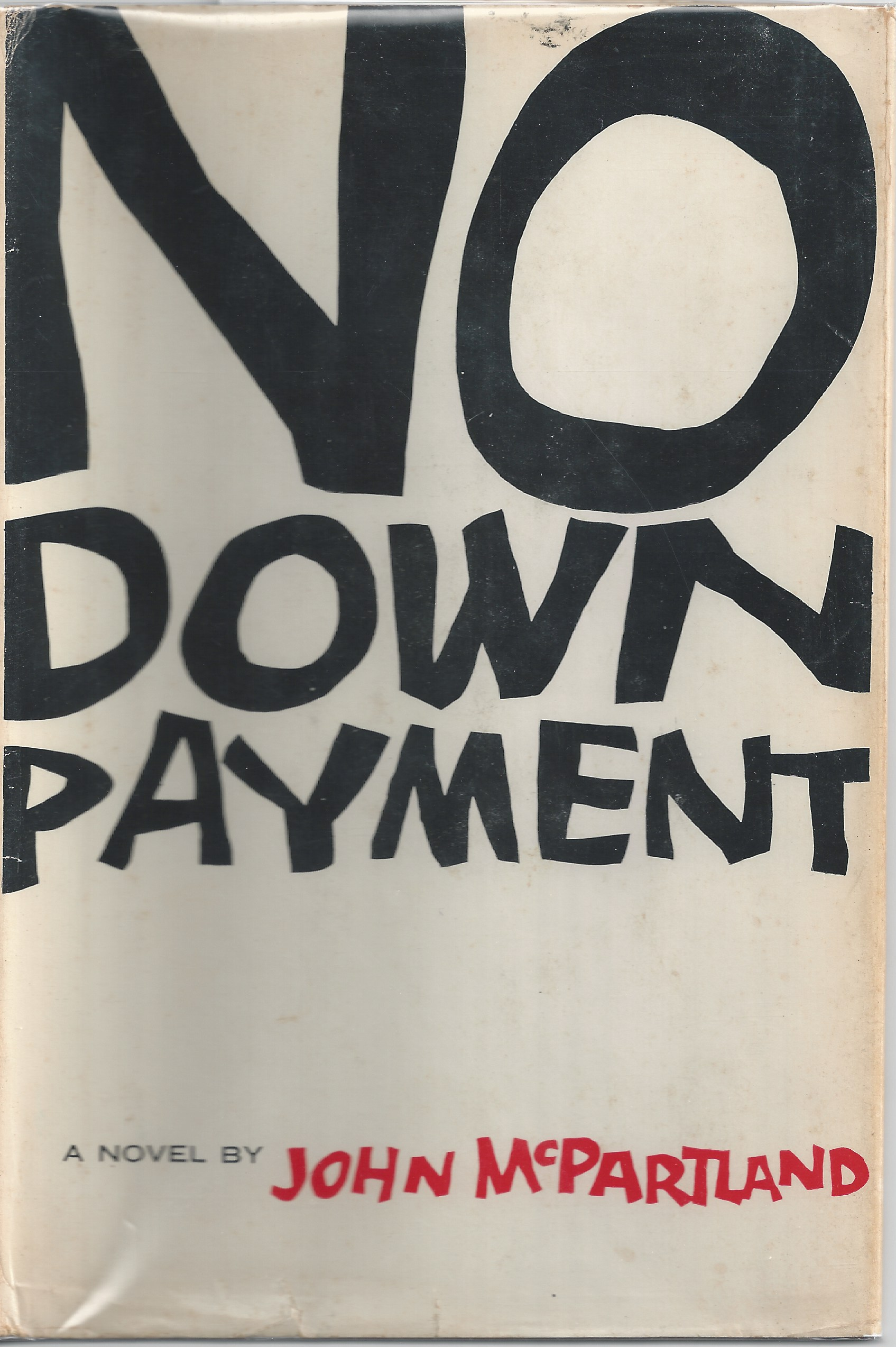 "No Down Payment" by John McPartland (New York: Simon & Schuster, 1957)